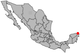 Location map of Holbox, México.